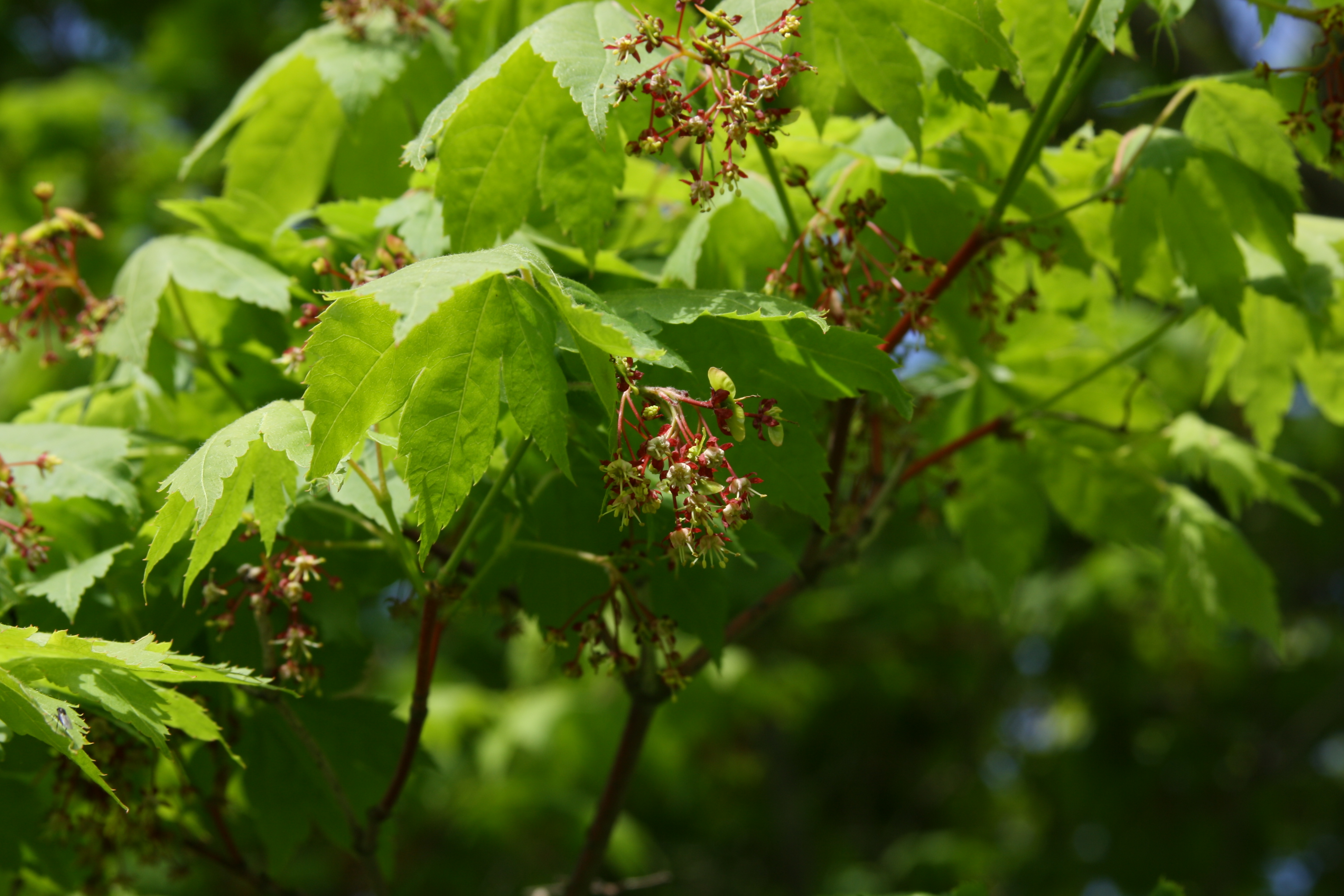 The flowers of Korean maple (Acer pseudosieboldianum), Botanical Garden of Tallinn, Estonia